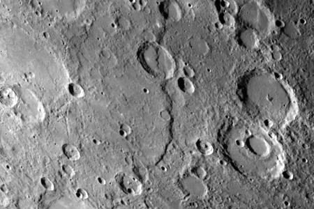 One of the most prominent lobate scarps (Discovery Scarp), photographed by Mariner 10 during its first encounter with Mercury, is located at the center of this image (extending from the top to near bottom). This scarp is about 350 kilometers long and transects two craters 35 and 55 kilometers in diameter. The maximum height of the scarp south of the 55-kilometer crater is about 3 kilometers. Notice the shallow older crater (near the center of the image) perched on the crest of the scarp.